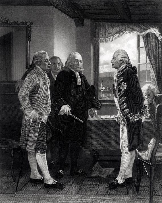 Depiction of the 1776 Staten Island Peace Conference. On the right stands Admiral Richard, Lord Howe. On the left, John Adams, Edward Rutledge, and Benjamin Franklin.